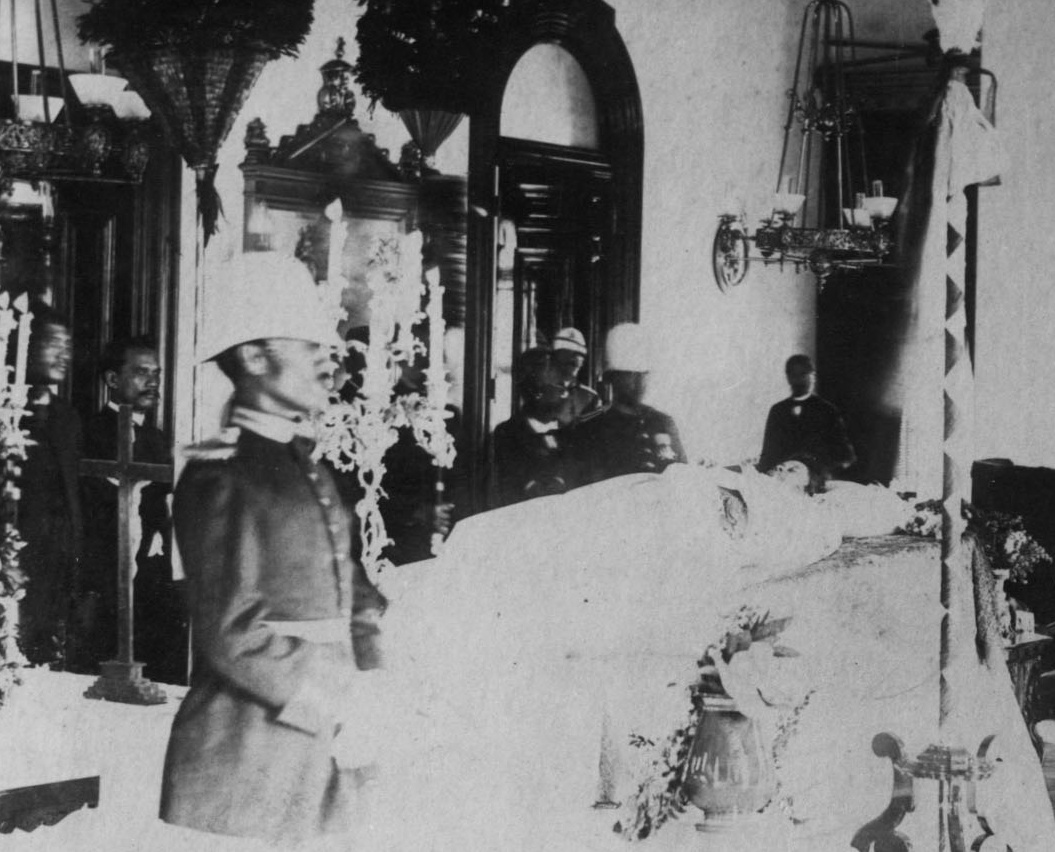 Princess Likelike lying in state at Iolani Palace.